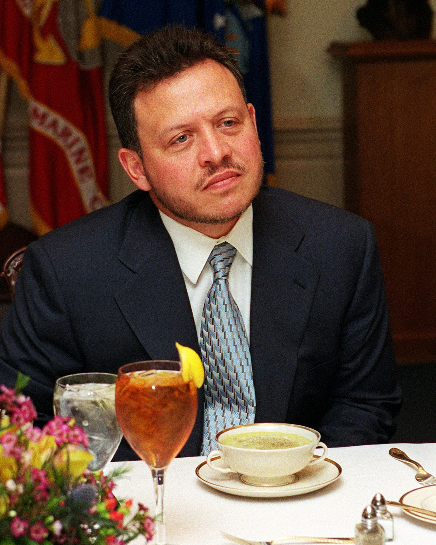 King Abdullah II, of the Hashemite Kingdom of Jordan, meets with Secretary of Defense Donald H. Rumsfeld in the Pentagon on April 5, 2001. King Abdullah II and Rumsfeld are discussing regional security issues of interest to both nations. DoD photo by Helene C. Stikkel. (Released)